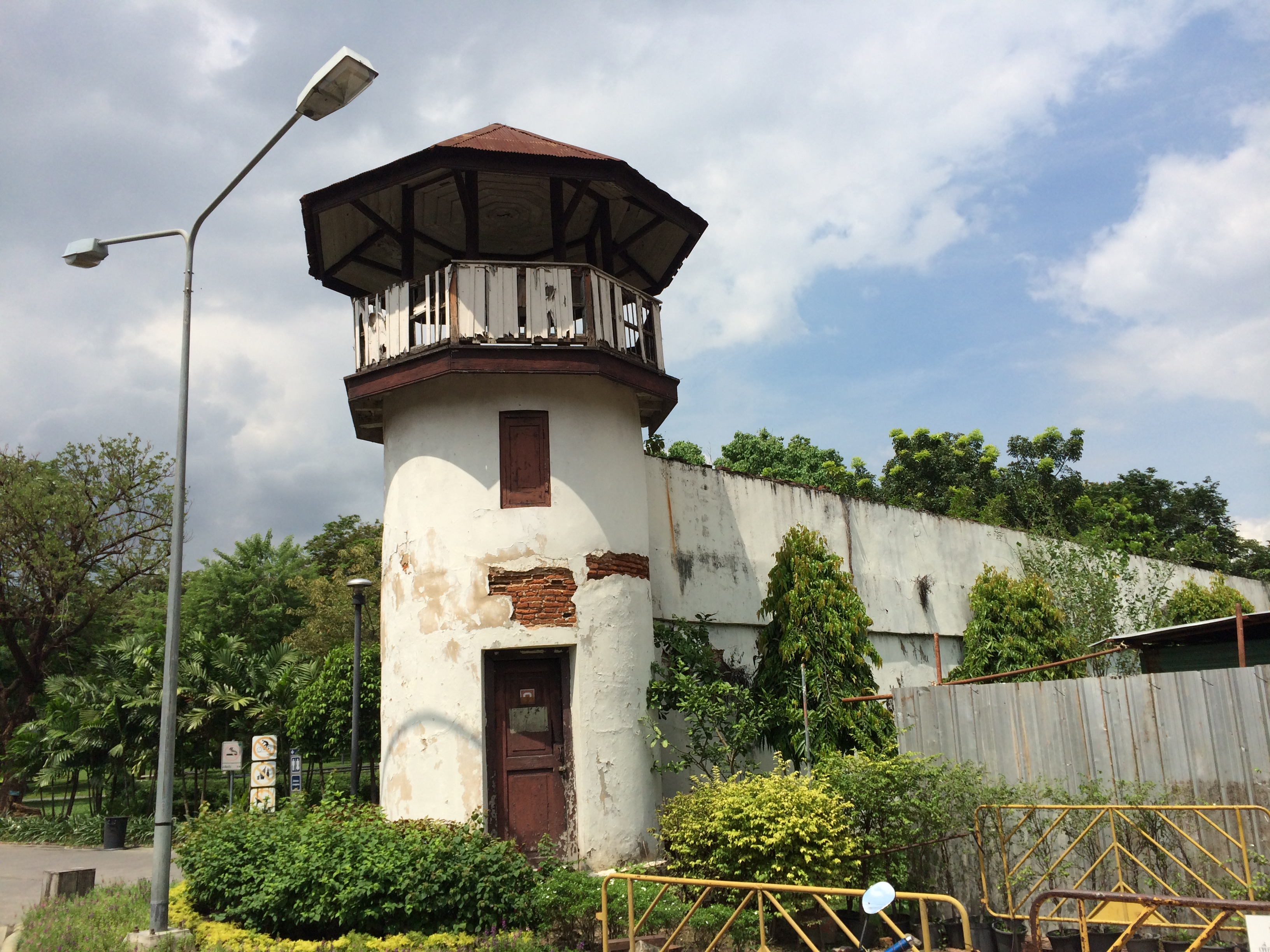 Image from the Suan Romaninart park of east-central Bangkok.